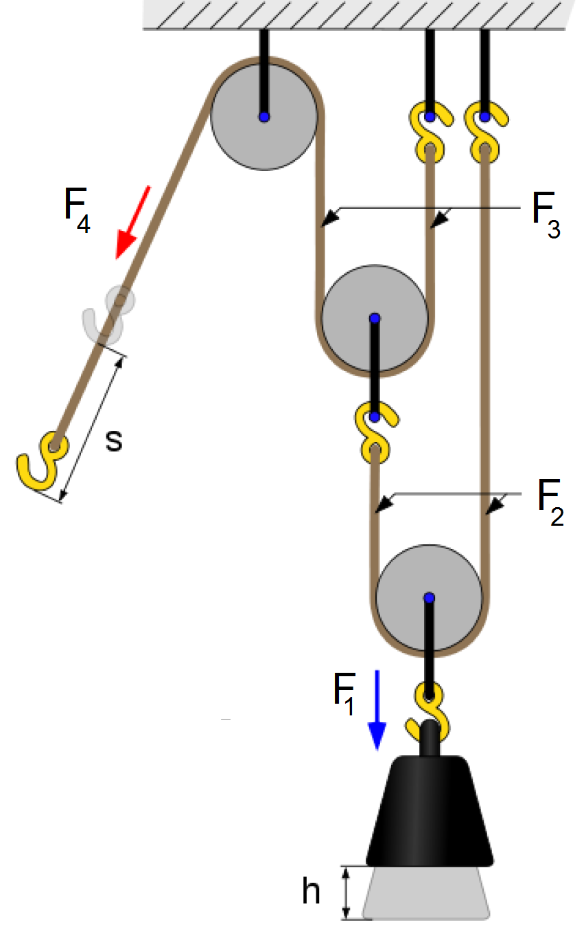 This is a modified version of File:Power_pulley.svg (numbers removed)